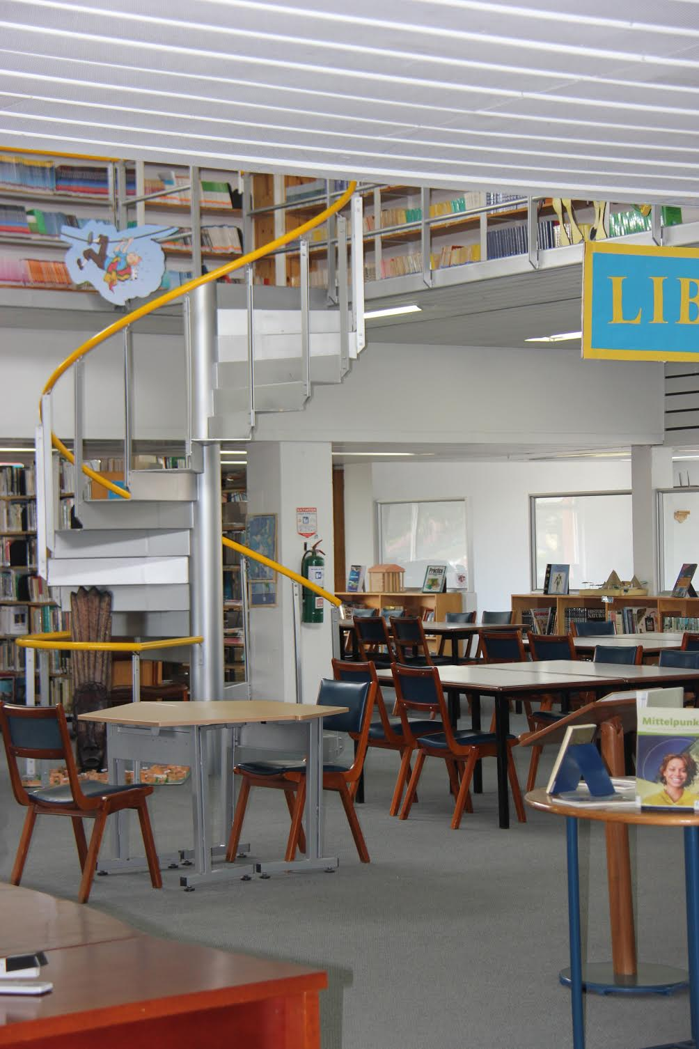 Picture of the school library of the Colegio Andino in Bogota.